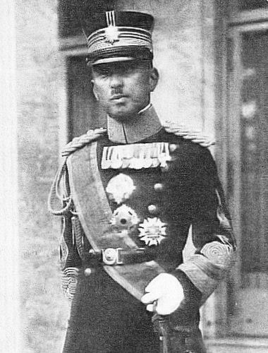 Prince Asaka Yasuhiko